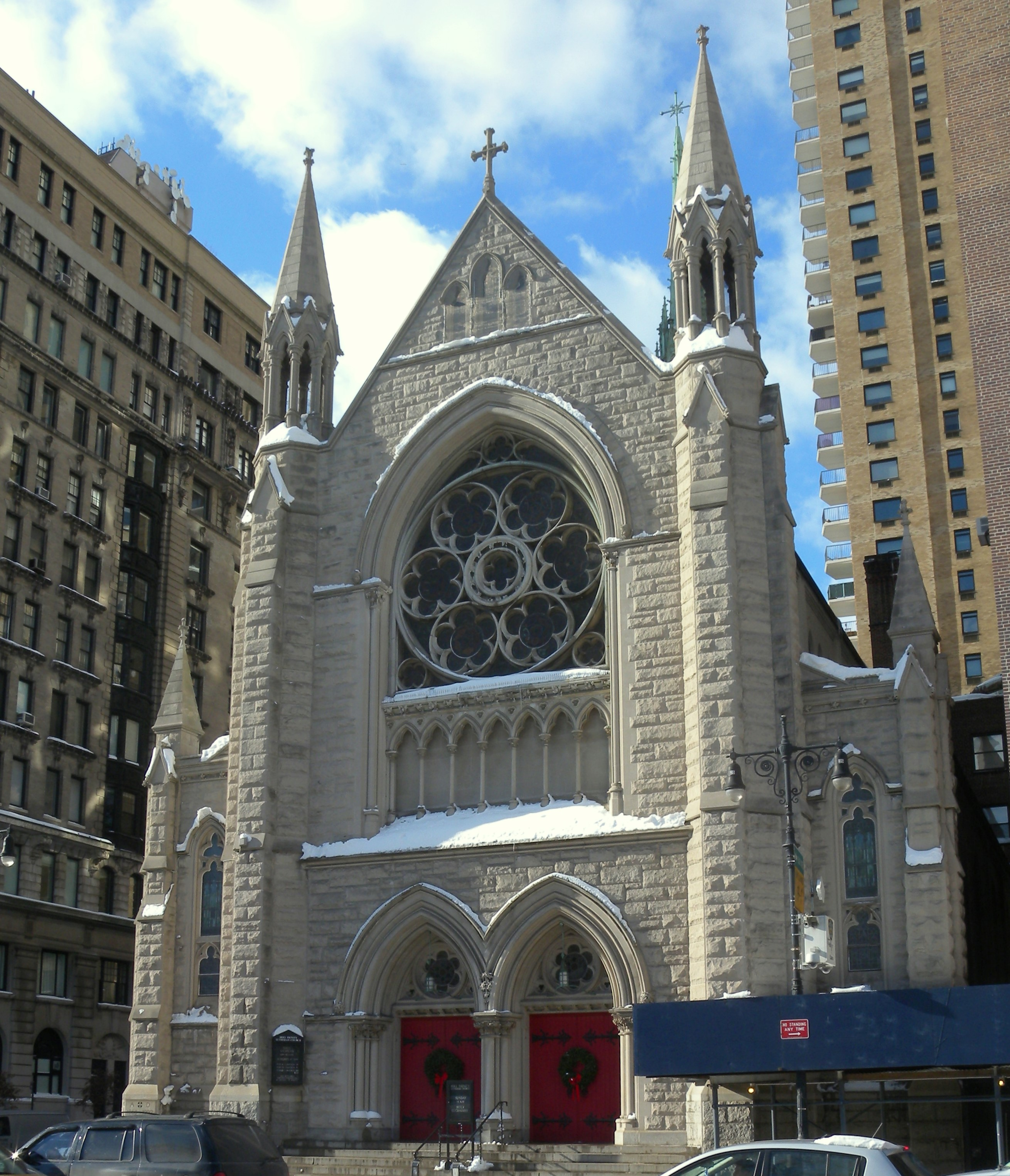 Looking west across CPW at Holy Trinity Lutheran Church on a sunny midday.